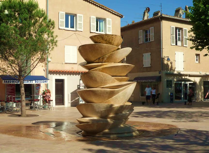 Sculpture/Fountain. Spirale. Jean Yves Lechevallier